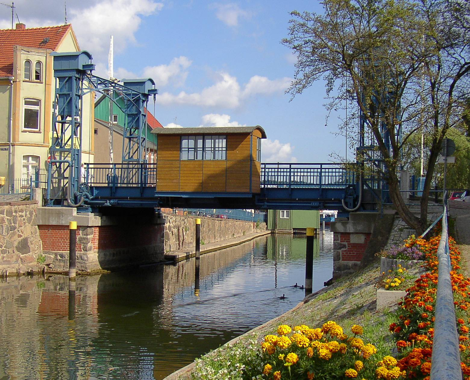 Lift bridge in Plau am See in Mecklenburg-Western Pomerania, Germany